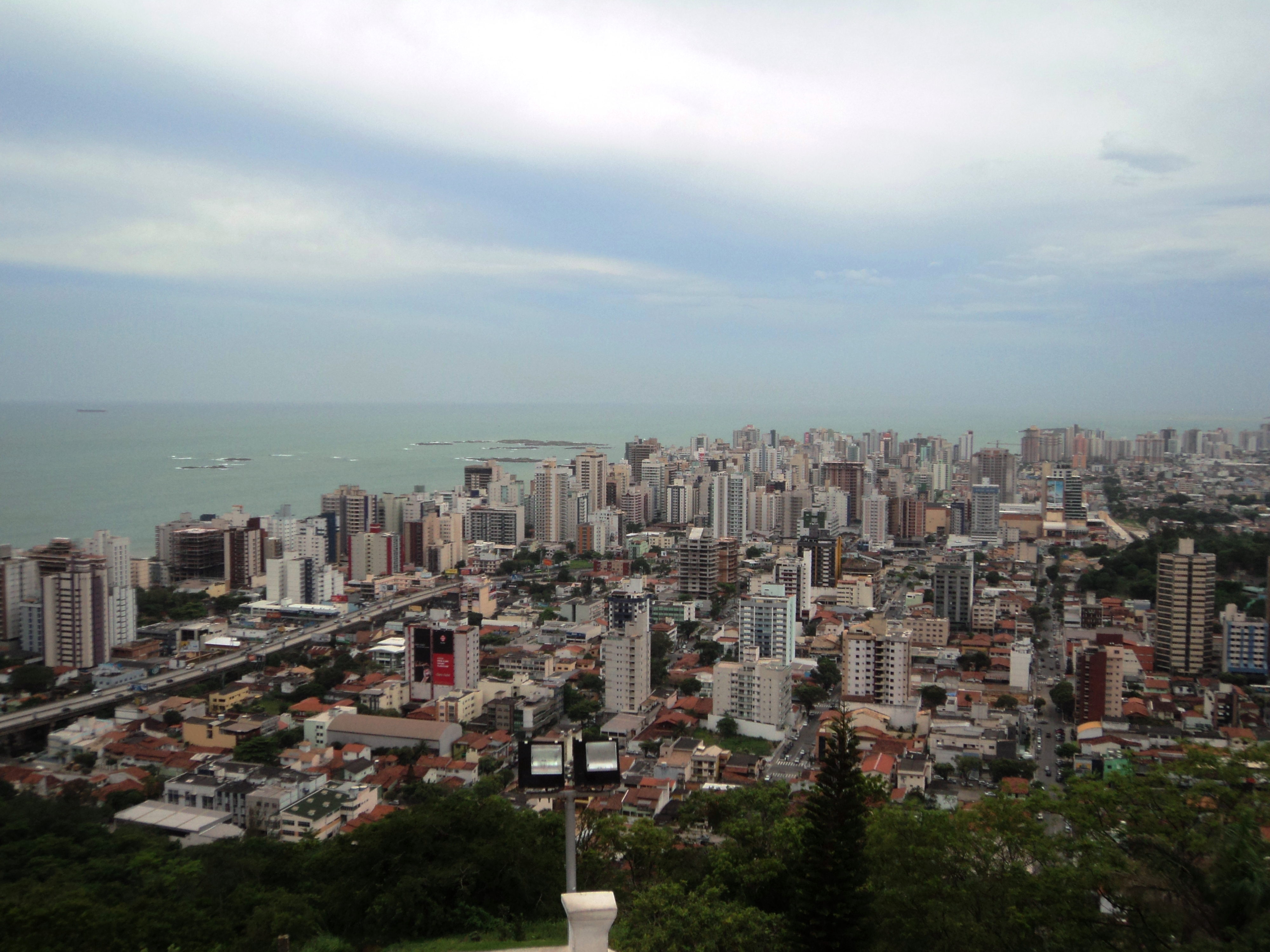 View of Vila Velha, Espírito Santo, Brazil, with the sea in the background.